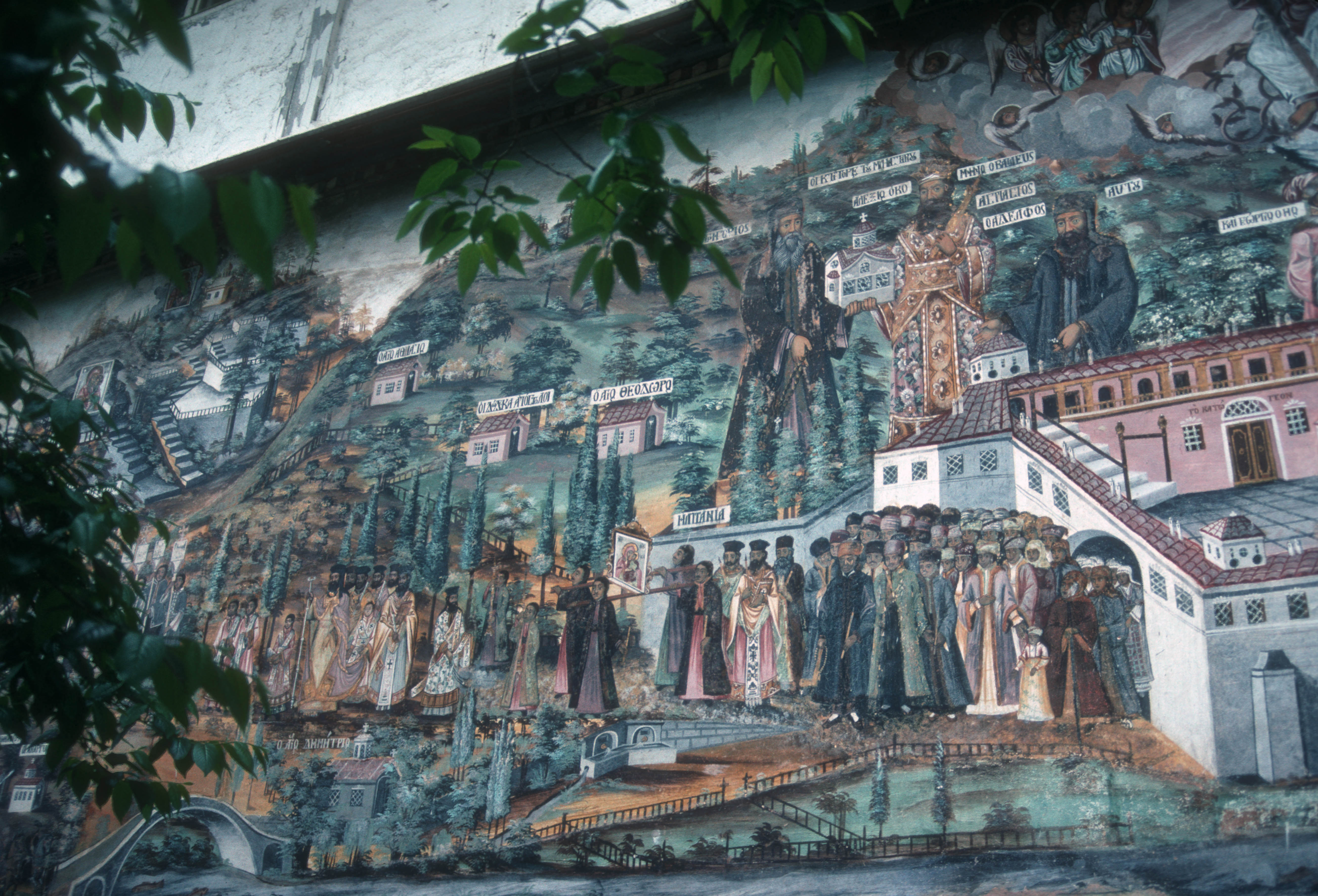 THIS IS A CONTINUATION OF THE PANORAMA MURAL